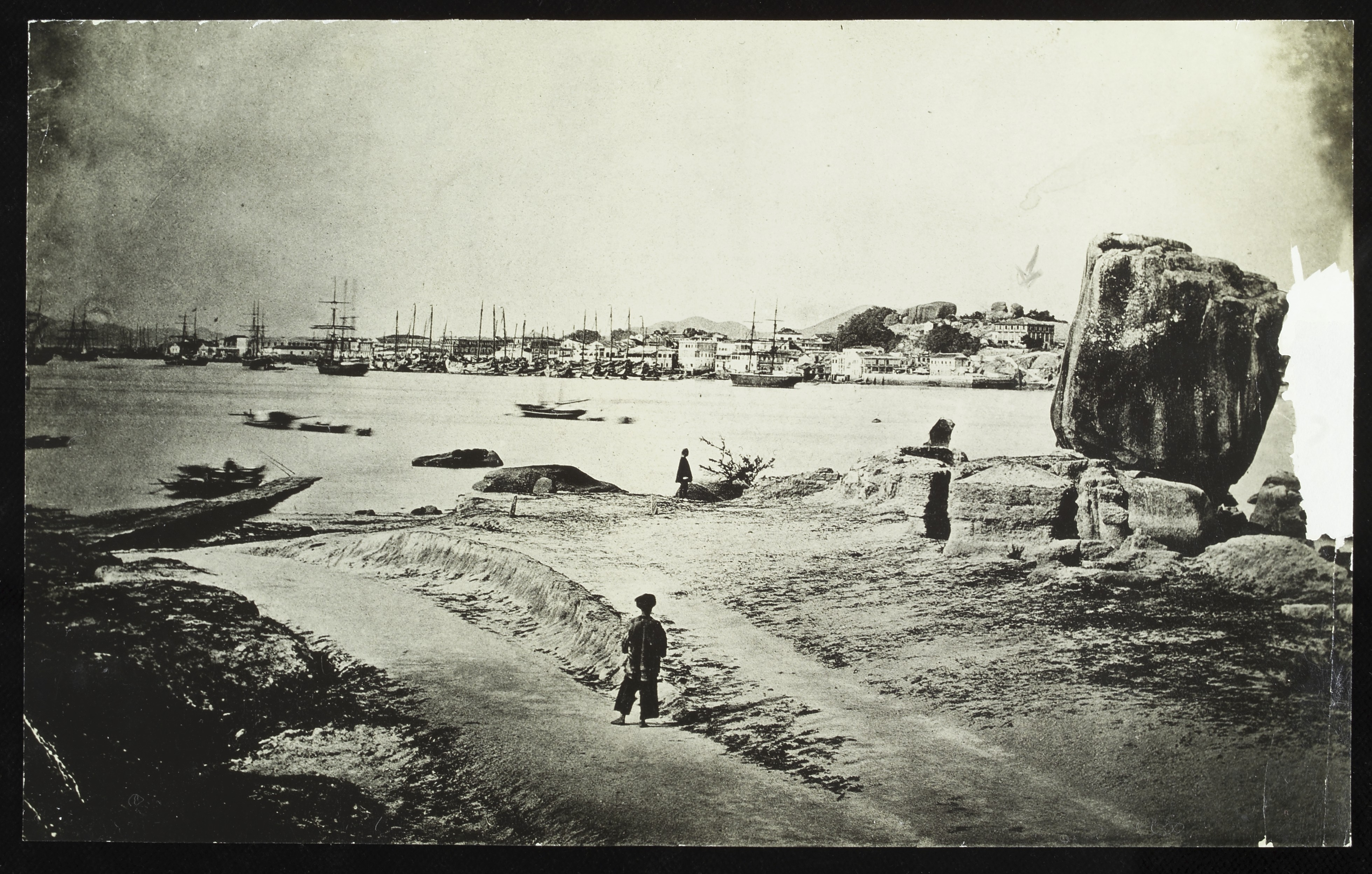 Amoy town and harbour seen from Kalangsu (Gulangyu) Island. The old Amoy hospital pointed at by an arrow. Fuh-kien (Fukien), China. Archives & Manuscripts Keywords: Patrick Manson